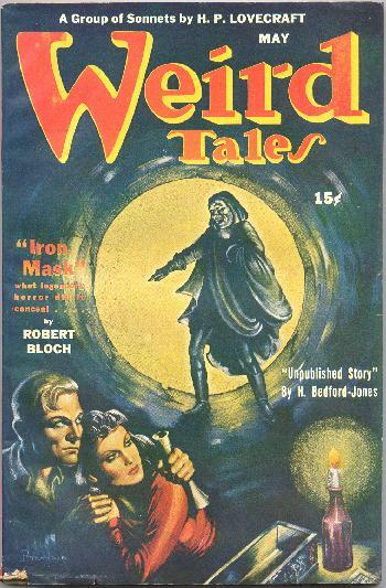 Cover of the pulp magazine Weird Tales (May 1944, vol. 38, no. 1) featuring Iron Mask by Robert Bloch. Cover art by Margaret Brundage.